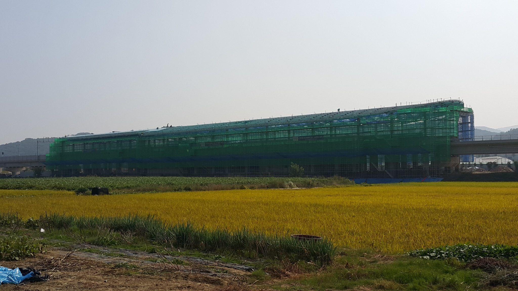 어천역 건물